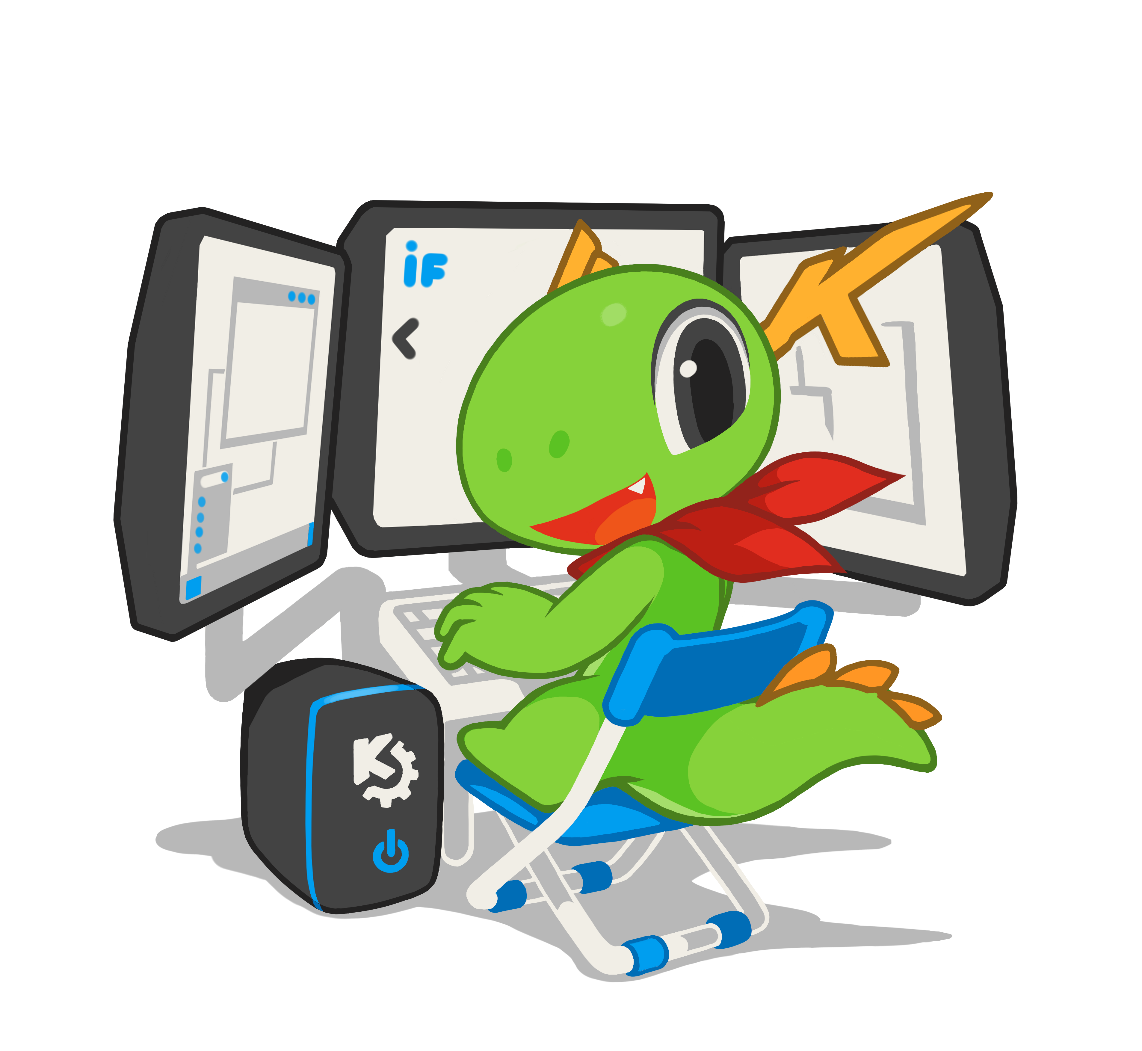 KDE mascot Konqi for KDE development applications.